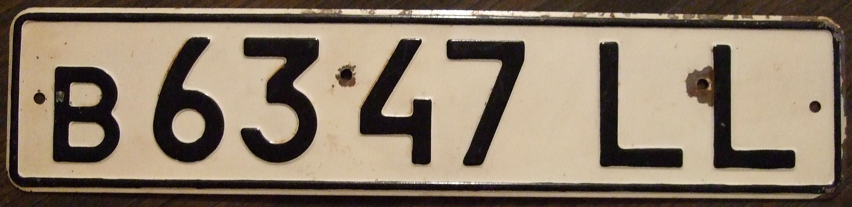 This Lithuanian SSR plate was issued at the time of the USSR break up. Plates used western alphabet or letters common to both Cyrillic and western alphabets. Lithuania would shortly issue it's own distinct plates by 1992.